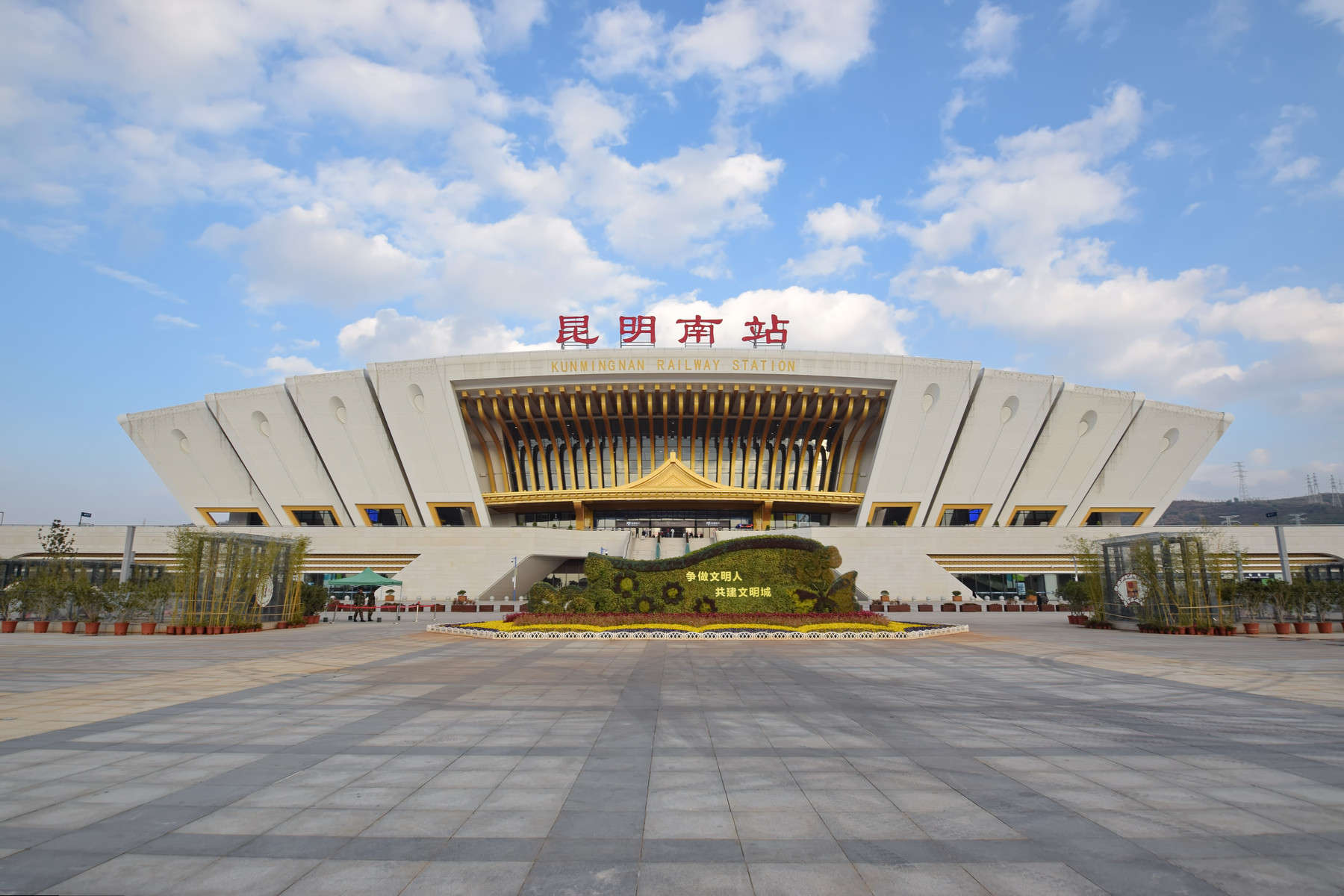 West Square of Kunming Nan (South) Railway Station